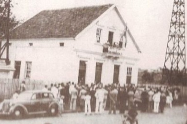 Photo in front of the first address of Rádio Clube Ponta-grossense on opening day